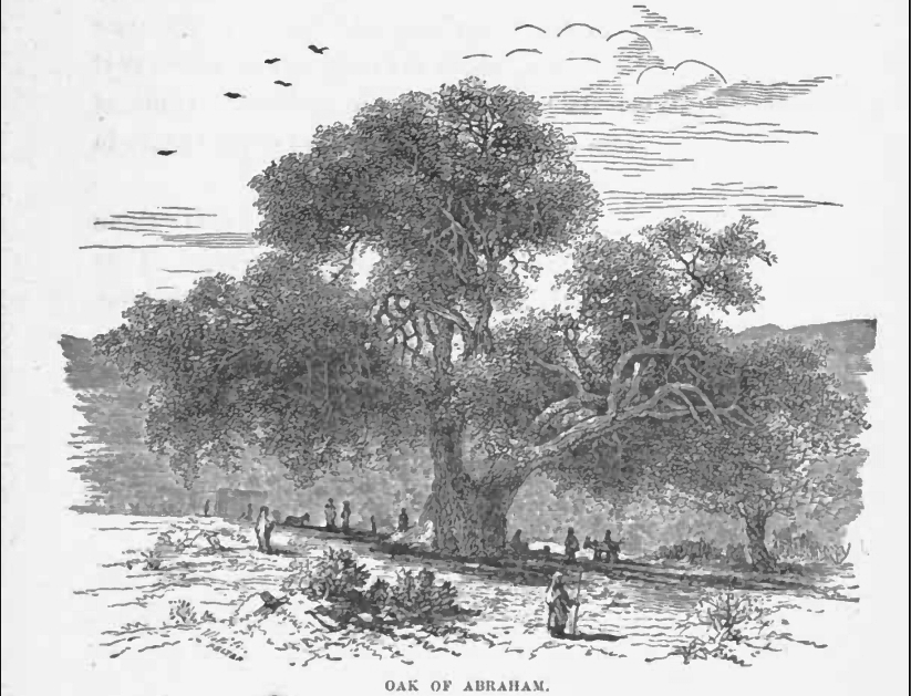 Oak of abeaham ; Oak of Sibta, 1887